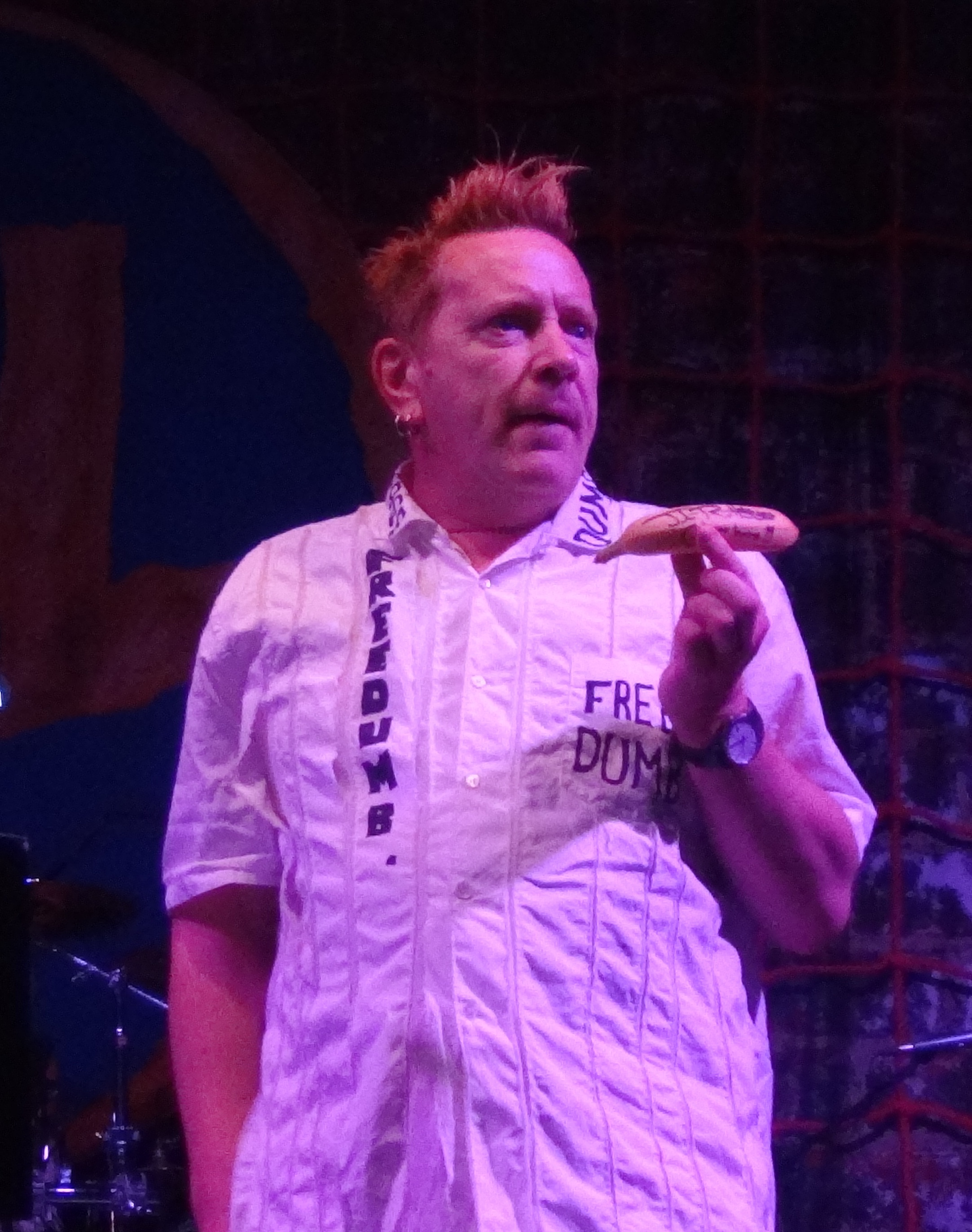 John Lydon live in 2013